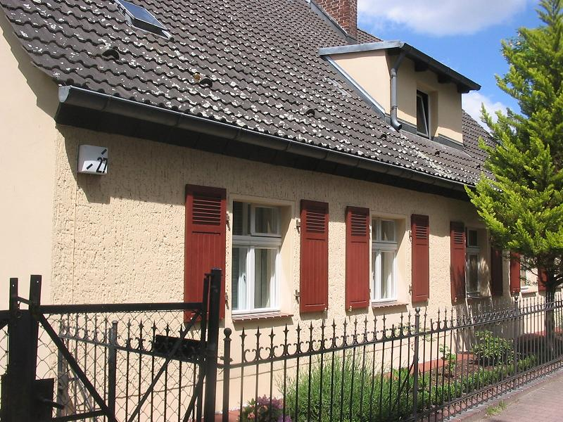 Listed housing estate, built past 1816, in Tiefwerder. Tiefwerder is a former village, founded in 1816, in Berlin-Spandau and an ait in Berlin-Wilhelmstadt from river Havel. The Tiefwerder Wiesen (meadows) are a protected area (german: Landschaftsschutzgebiet) and Berlins last natural flood plain and last spawn-area for the Northern pike.